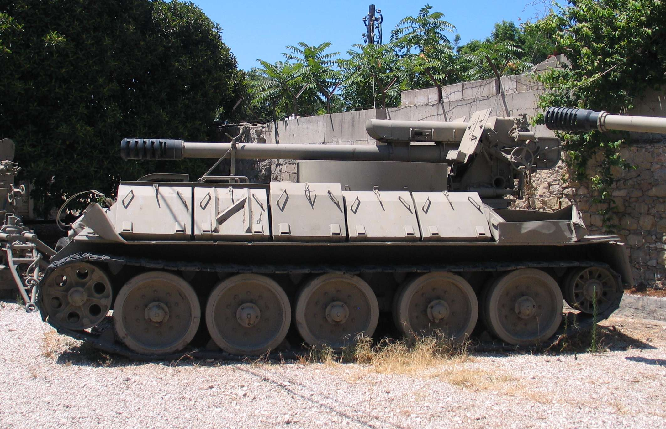 Batey ha-Osef museum, Tel Aviv, Israel. Syrian self-propelled gun, sometimes referred to as T-34/122.